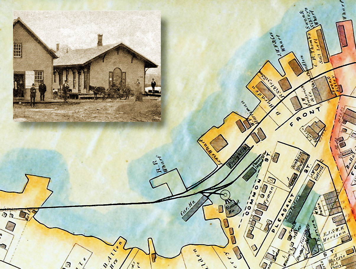 Diagram of the Belfast yard of the Belfast and Moosehead Lake Railroad in 1875 while being operated under lease by the Maine Central Railroad as its Belfast Branch. (Inset: The MEC built Belfast station house c1880) Map: Detail from wall map of Belfast, ME. drawn & published by Sanford & Leggett of Philadelphia, PA. 1875